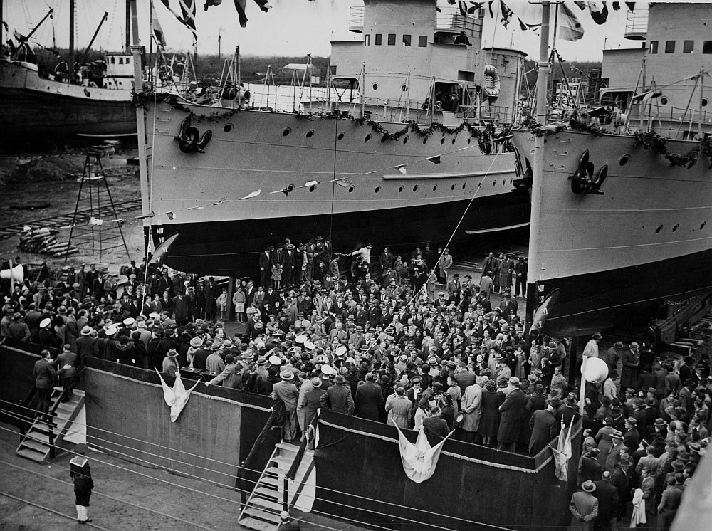 ARA Seaver and ARA Robinson. Hansen y Puccini